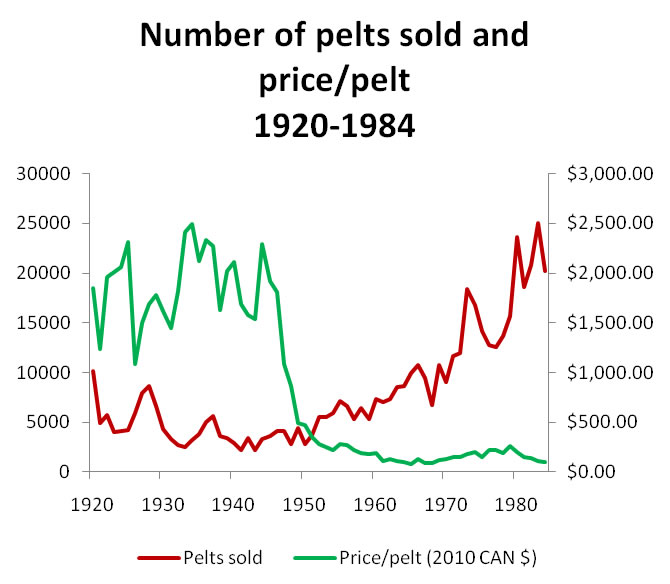 Graph showing number of fisher (Martes pennanti) sold between 1920-1984 as well as price per pelt in adjusted 2010 Canadian dollars.